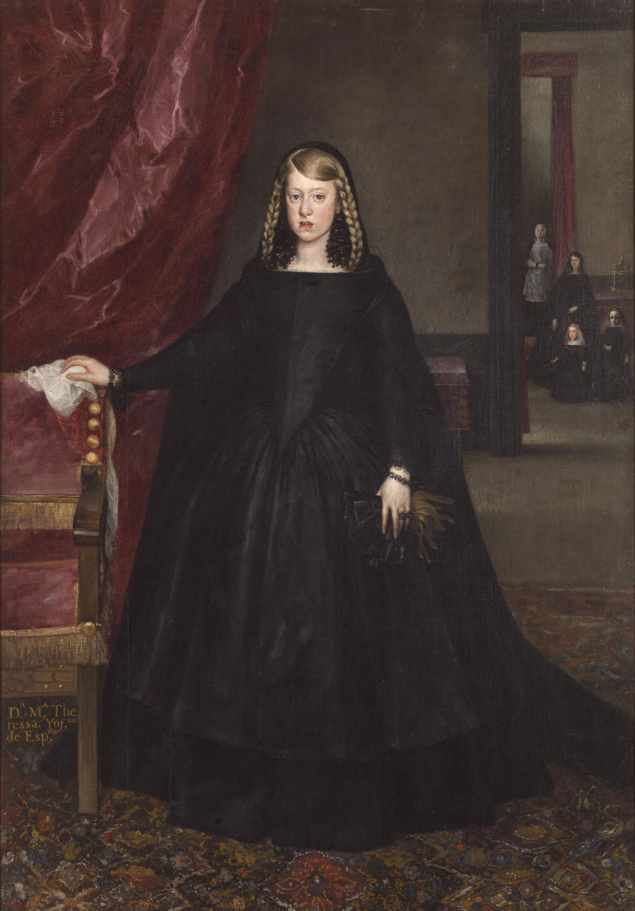 The sitter is Margaret of Spain, first wife of Leopold I, Holy Roman Emperor, wearing mourning dress for her father, Philip IV of Spain, with children and attendants in mourning dress.